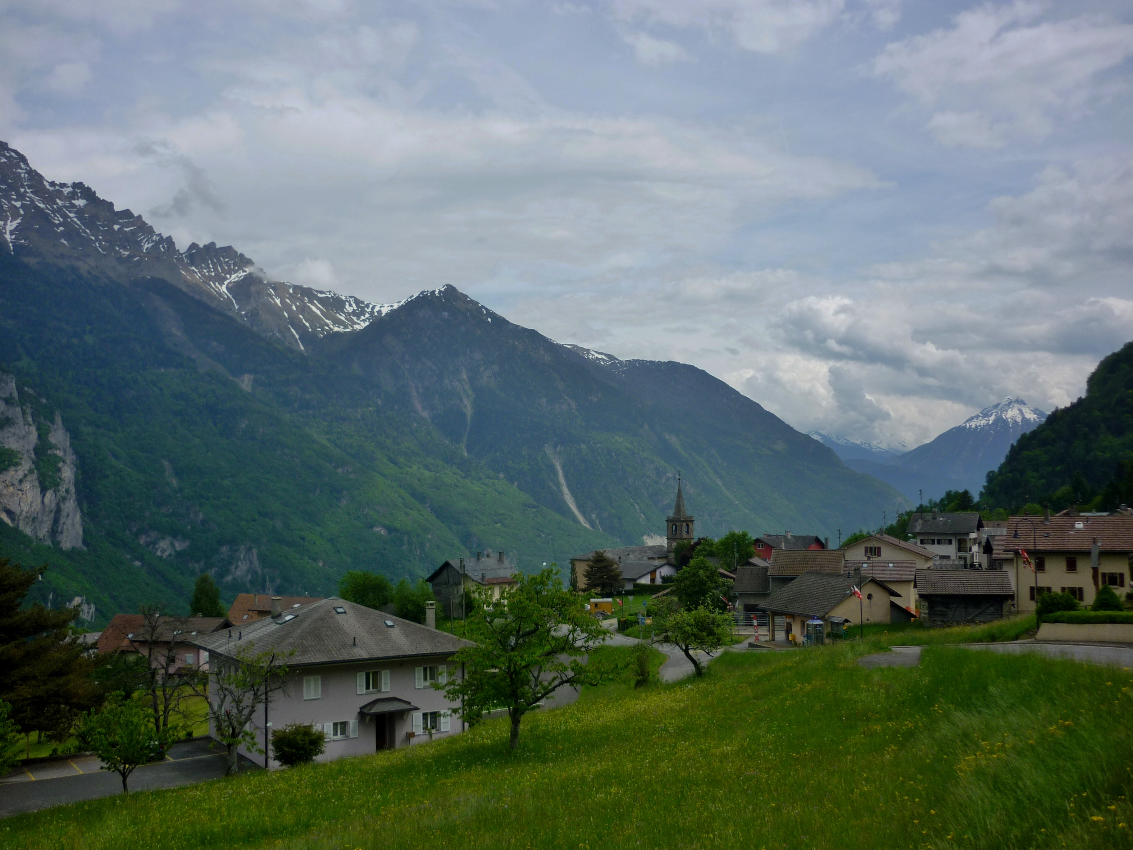 Verossaz near Saint-Maurice VS